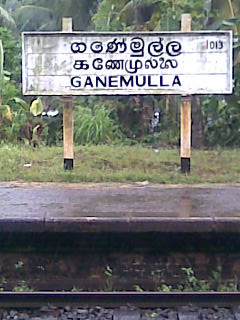 Ganemulla railway station name board (Platform 2 - Colombo end) clearly indicating the station number (013)